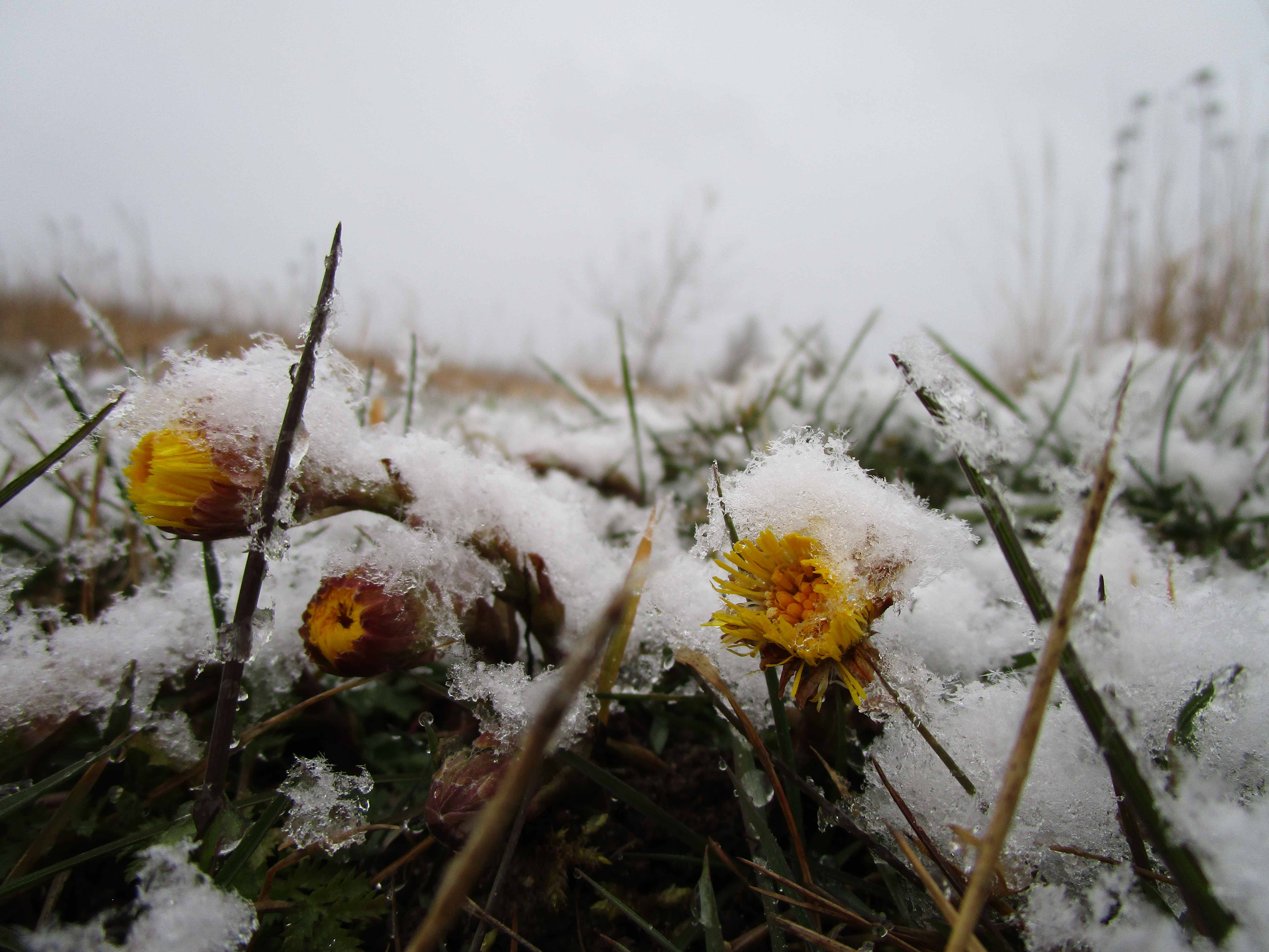 Hawkweed in a spring snowstorm, Denmark